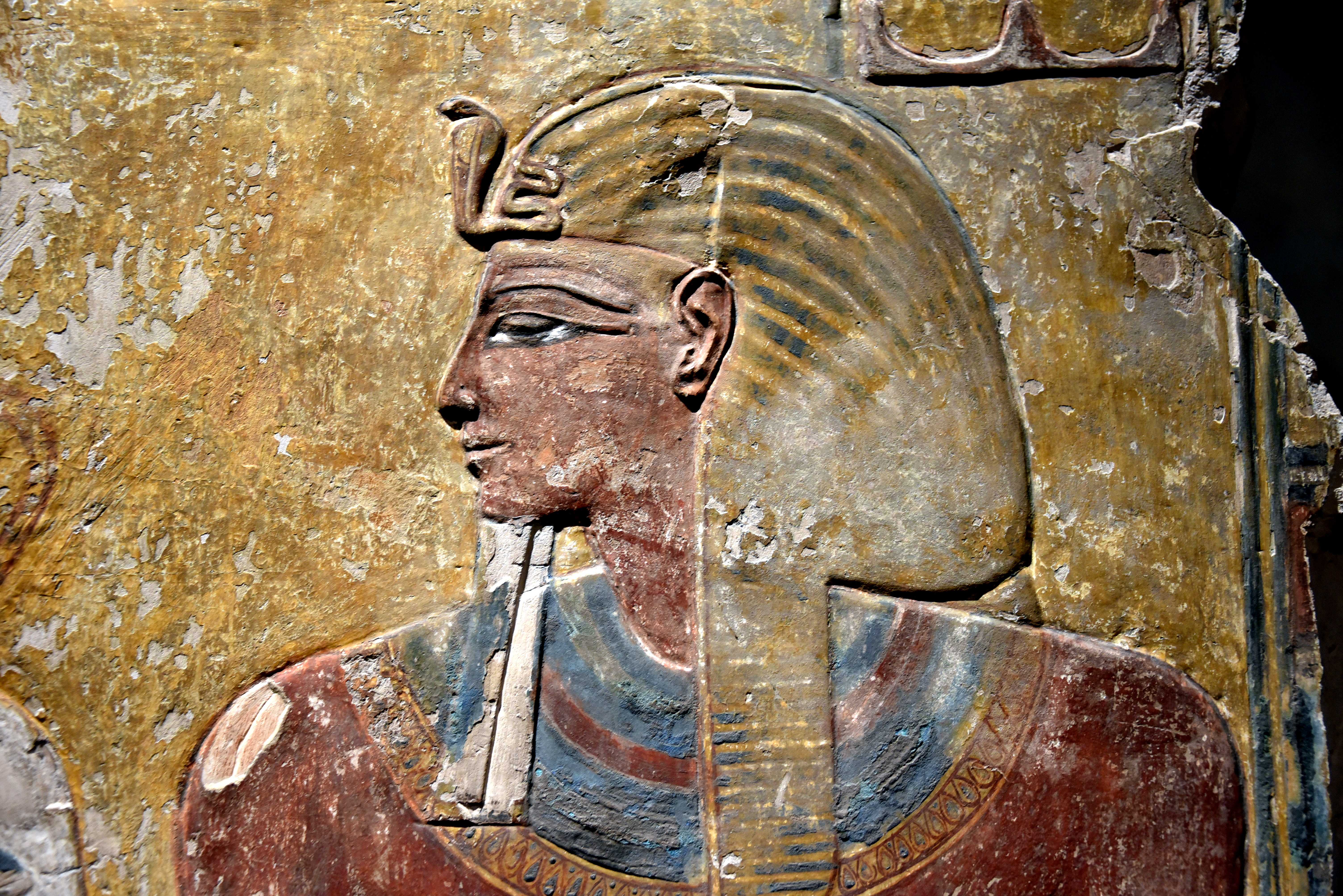 Pharaoh Seti I, detail of a wall painting of a pillar at the Tomb of Seti I (KV17; Hall J, Pillar B, side a), Valley of the Kings, Western Thebes, Egypt. New Kingdom, 19th Dynasty, 1290-1279 BCE. Neues Museum, Berlin, Germany. Plaster, painted. ÄM 2058.